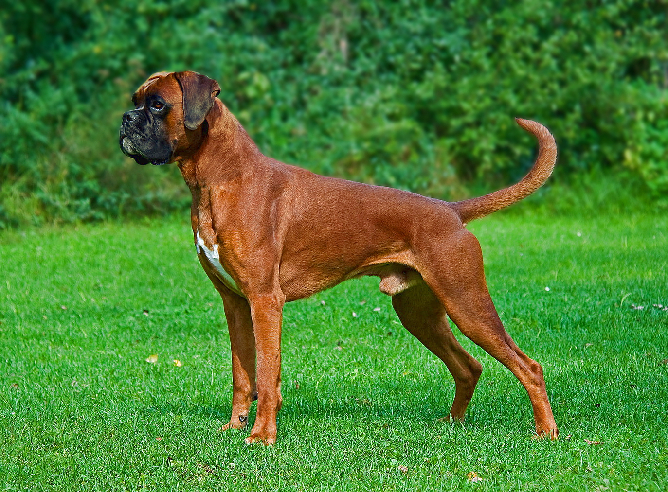 In-tact, male fawn Boxer with uncropped ears and an undocked tail.